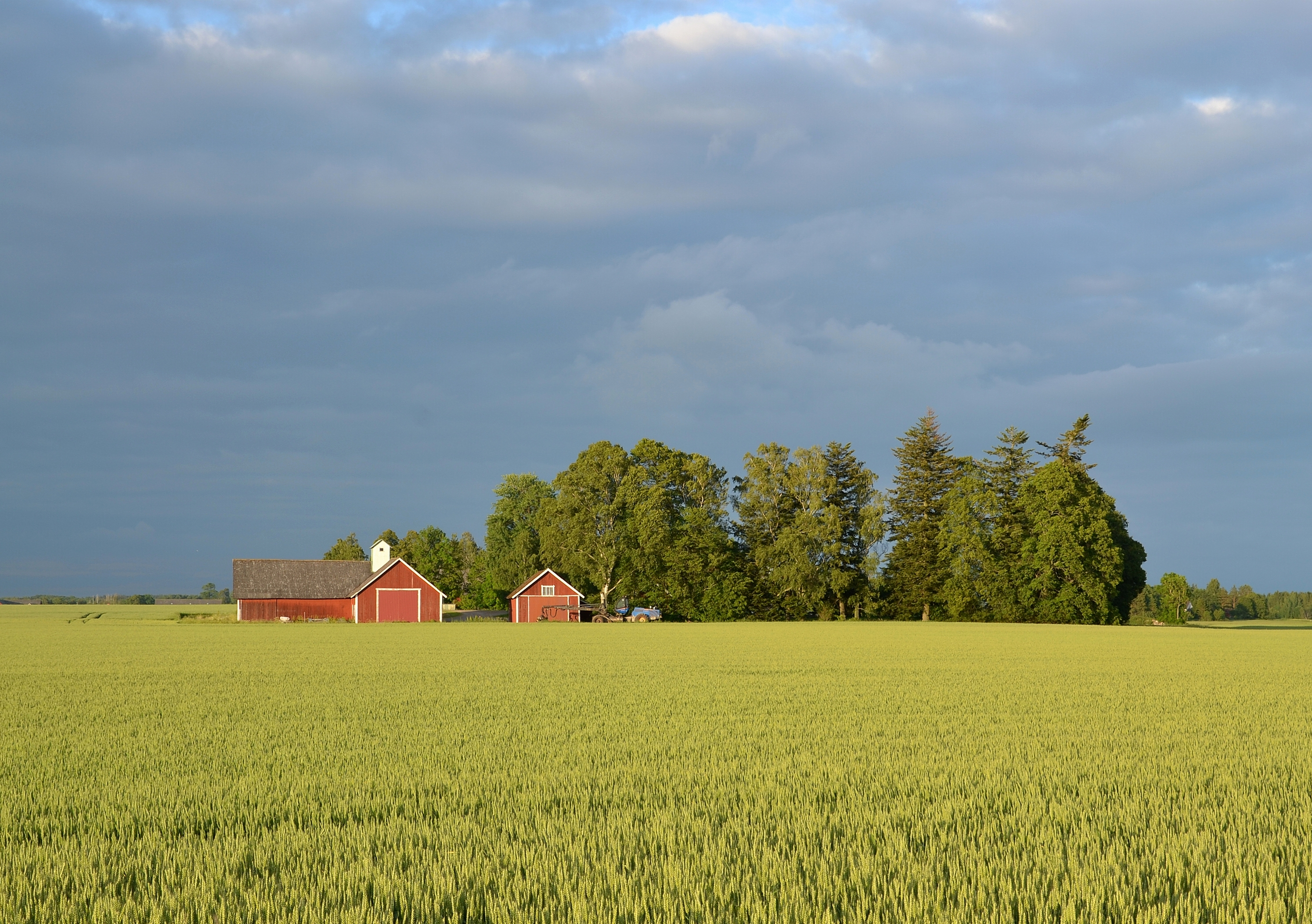 Swedish landscape near Mjölby